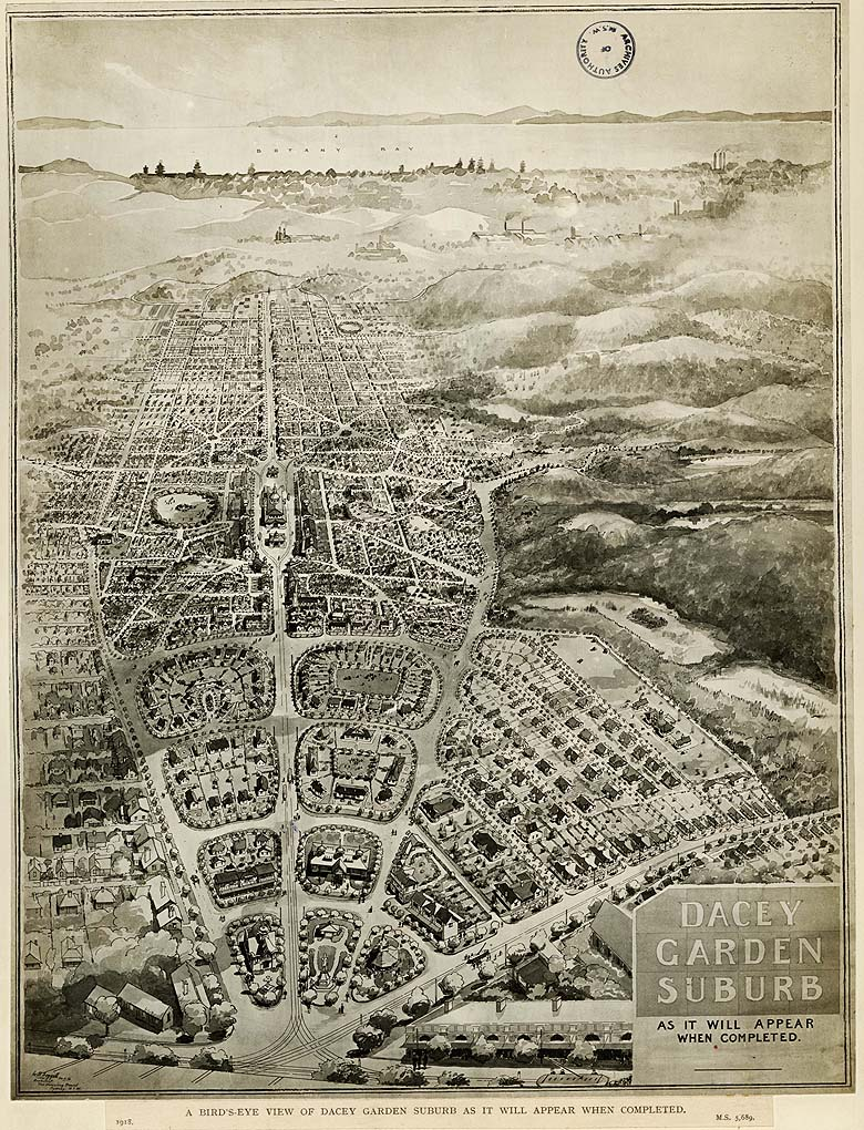 A birds-eye view of Dacey Garden suburb in Sydney, Australia